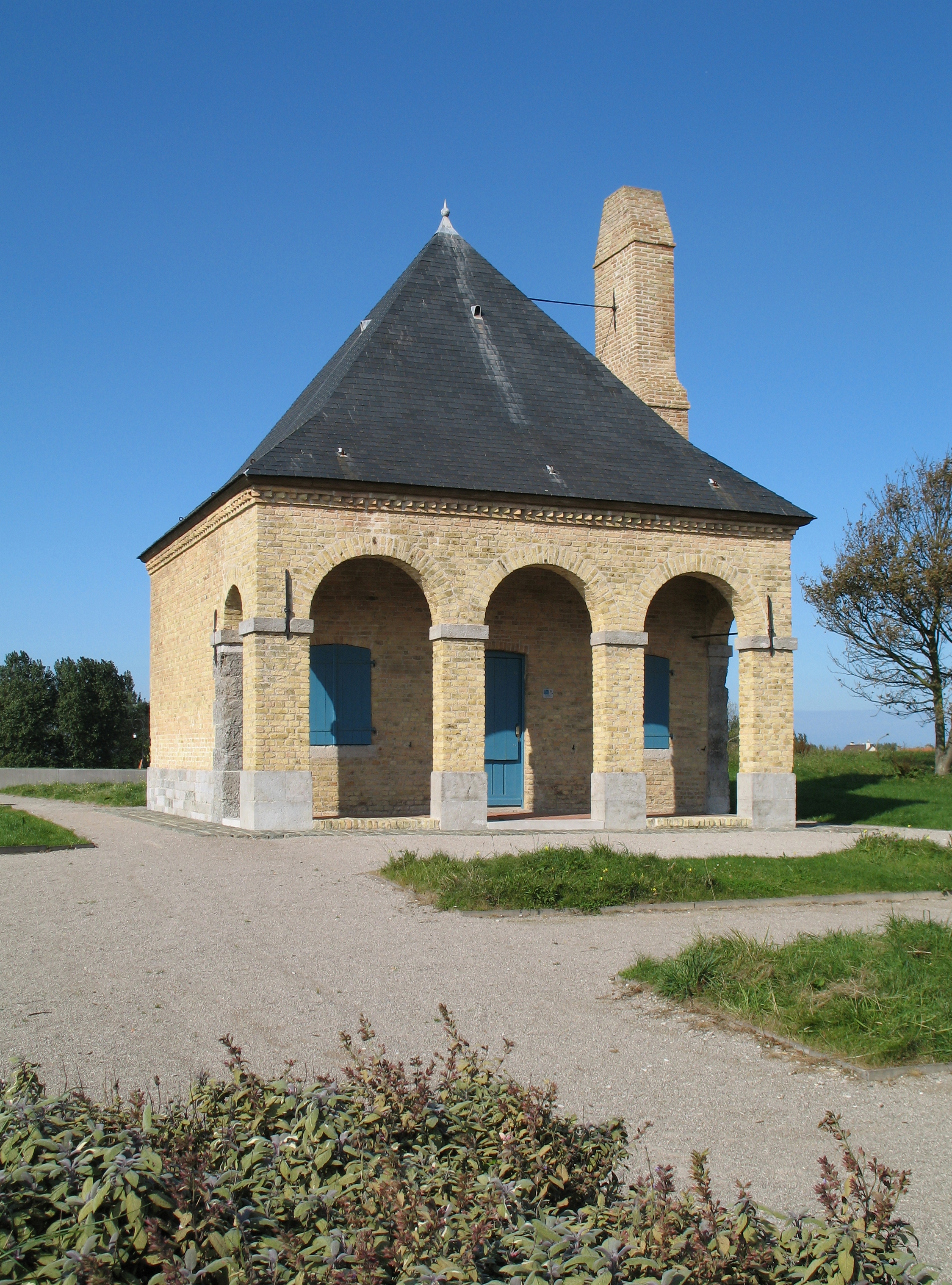 Gravelines (département du Nord, France): 18th century sentry house on the city ramparts